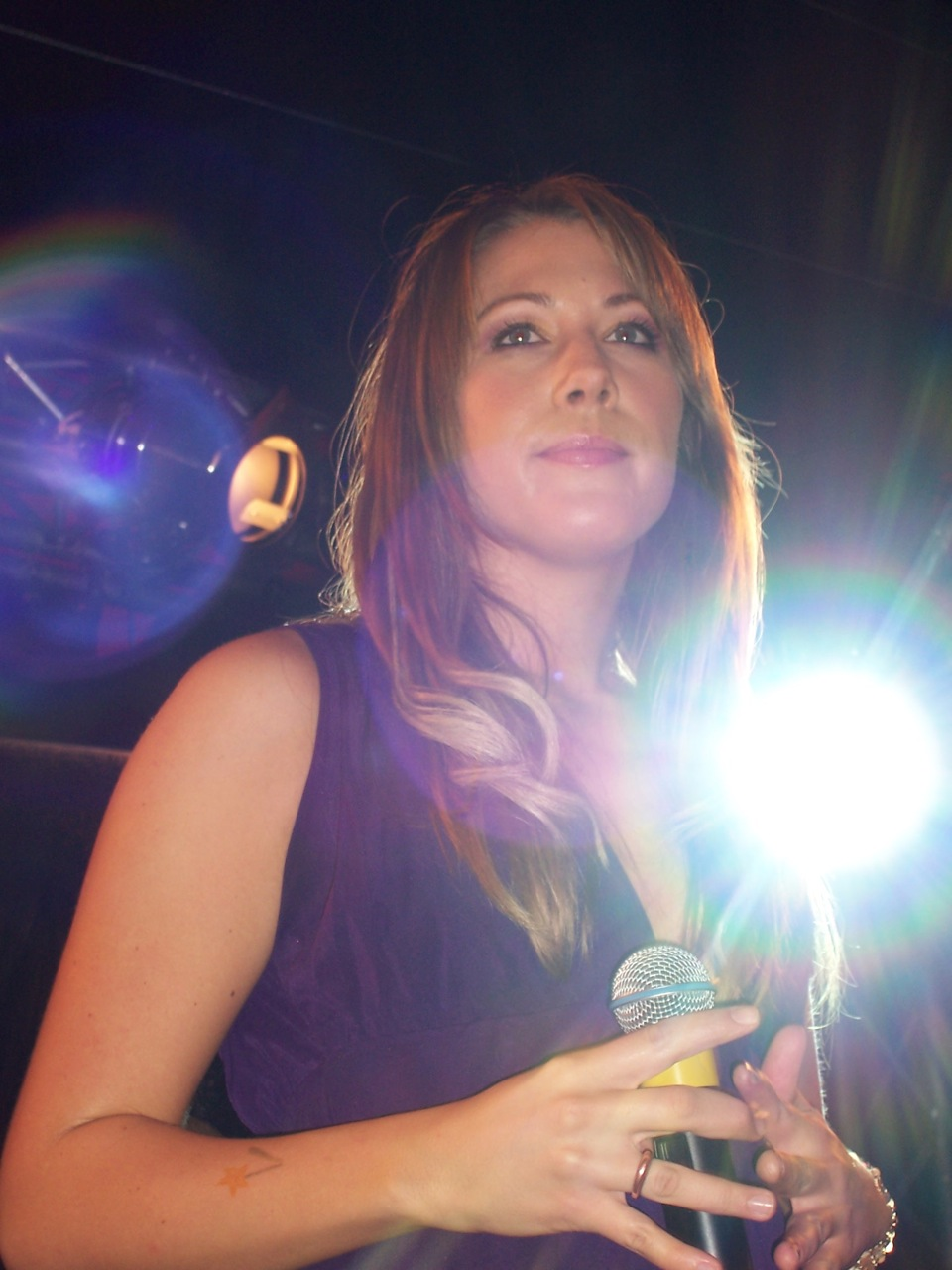 American singer Colbie Caillat.